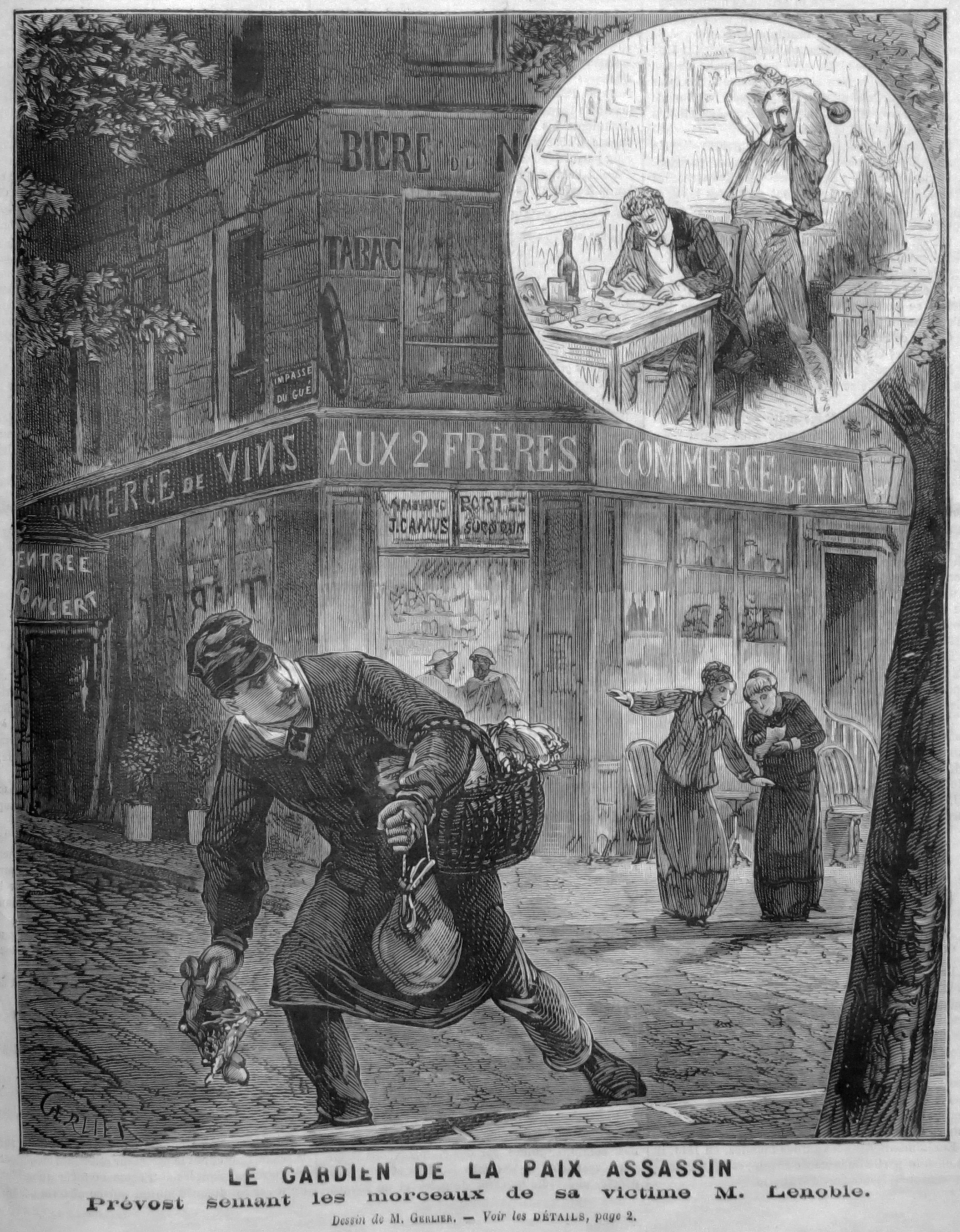 Victor Prévost scattering the body of Alexandre Lenoble the evening of his assassination.